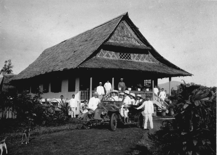 Group portrait with a car and a house in the Minahasa